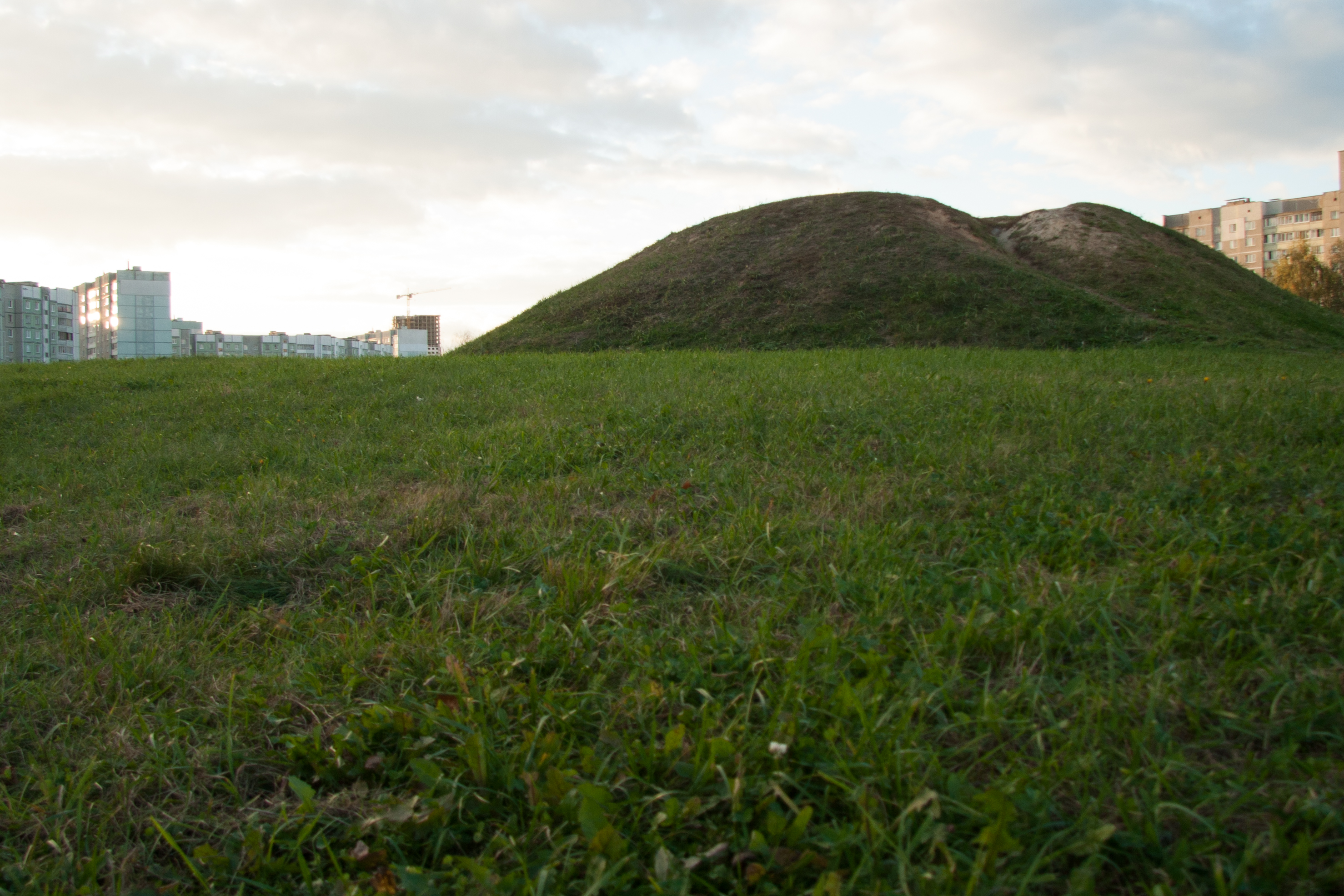 Беларуская (тарашкевіца): Курганны могільнік. г. Менск This is a photo of Belarusian heritage monument. Reference number: 713В000037 ( WLM)